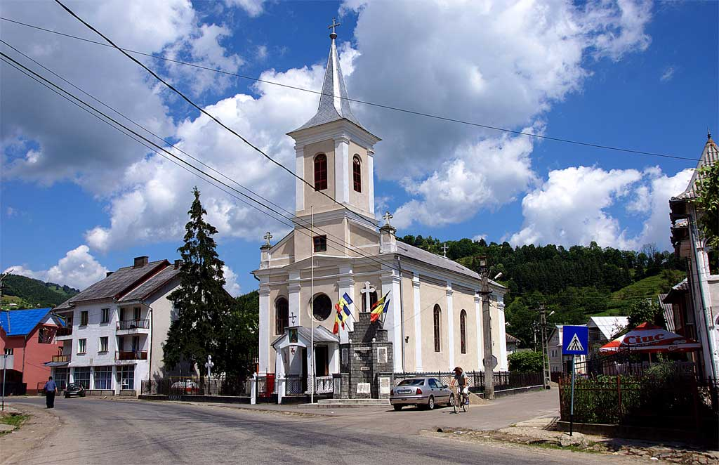 Cosbuc - Church